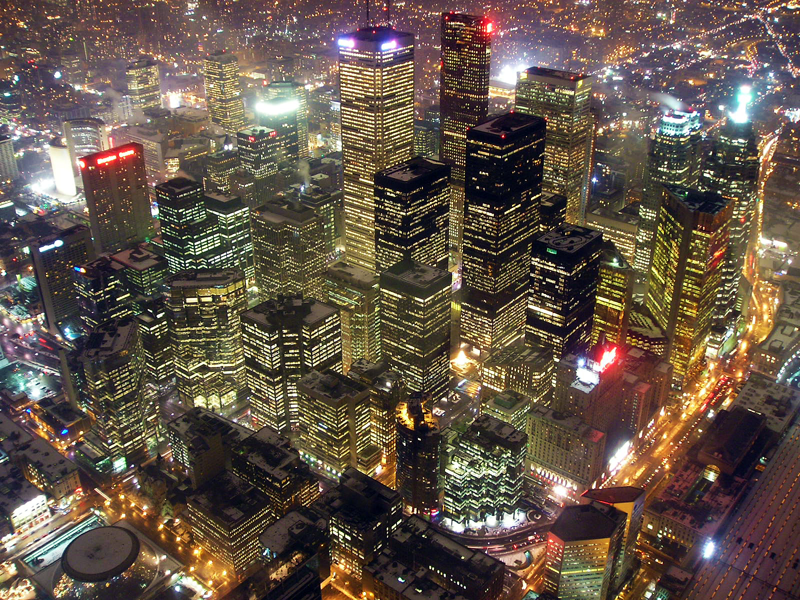 Toronto from CN Tower